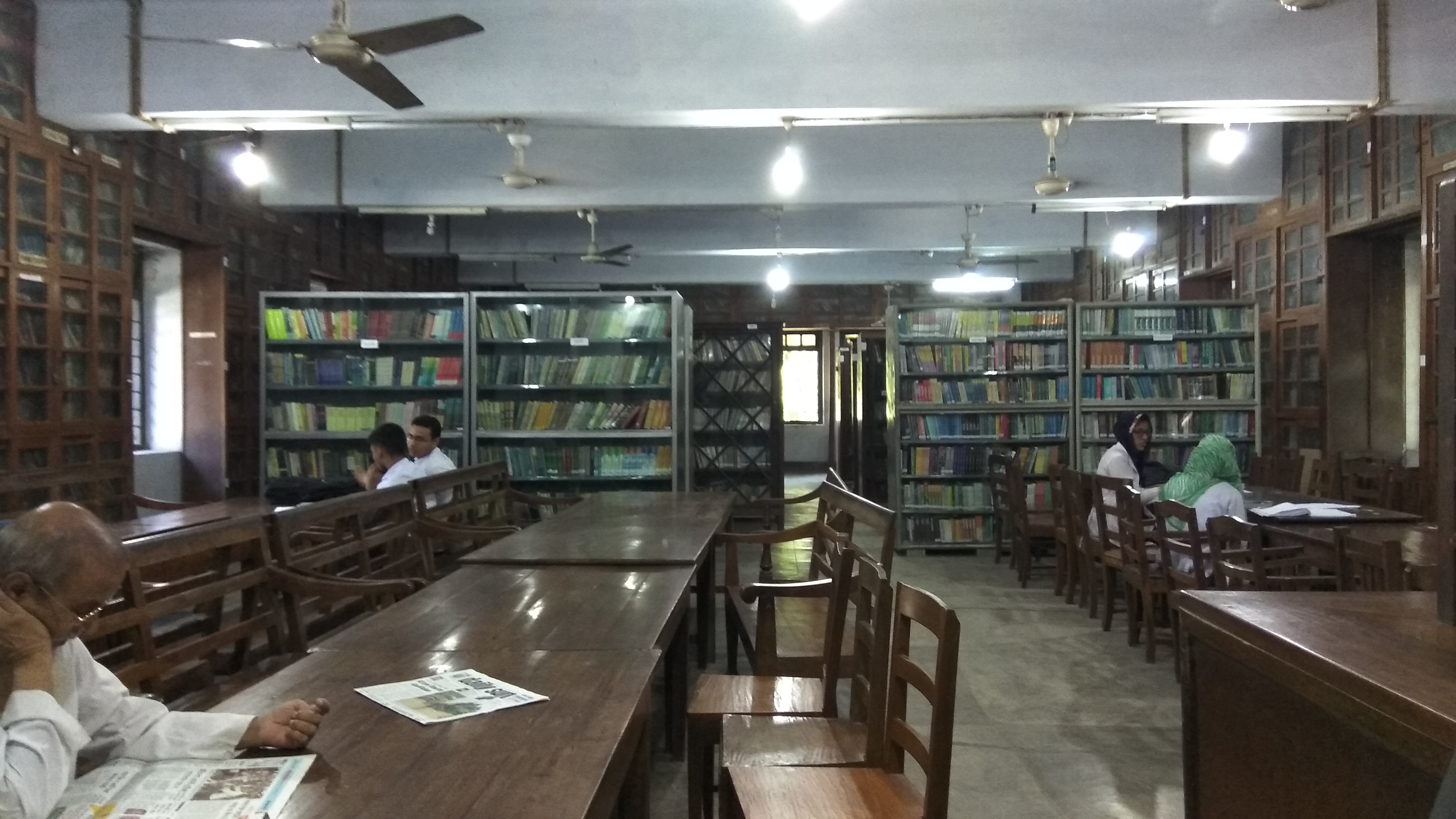 This is an image of library of Chittagong College.